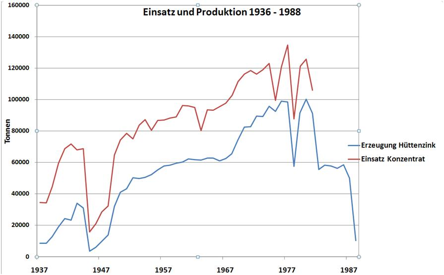 production of zinc at Harlingerode Smelter (GER)